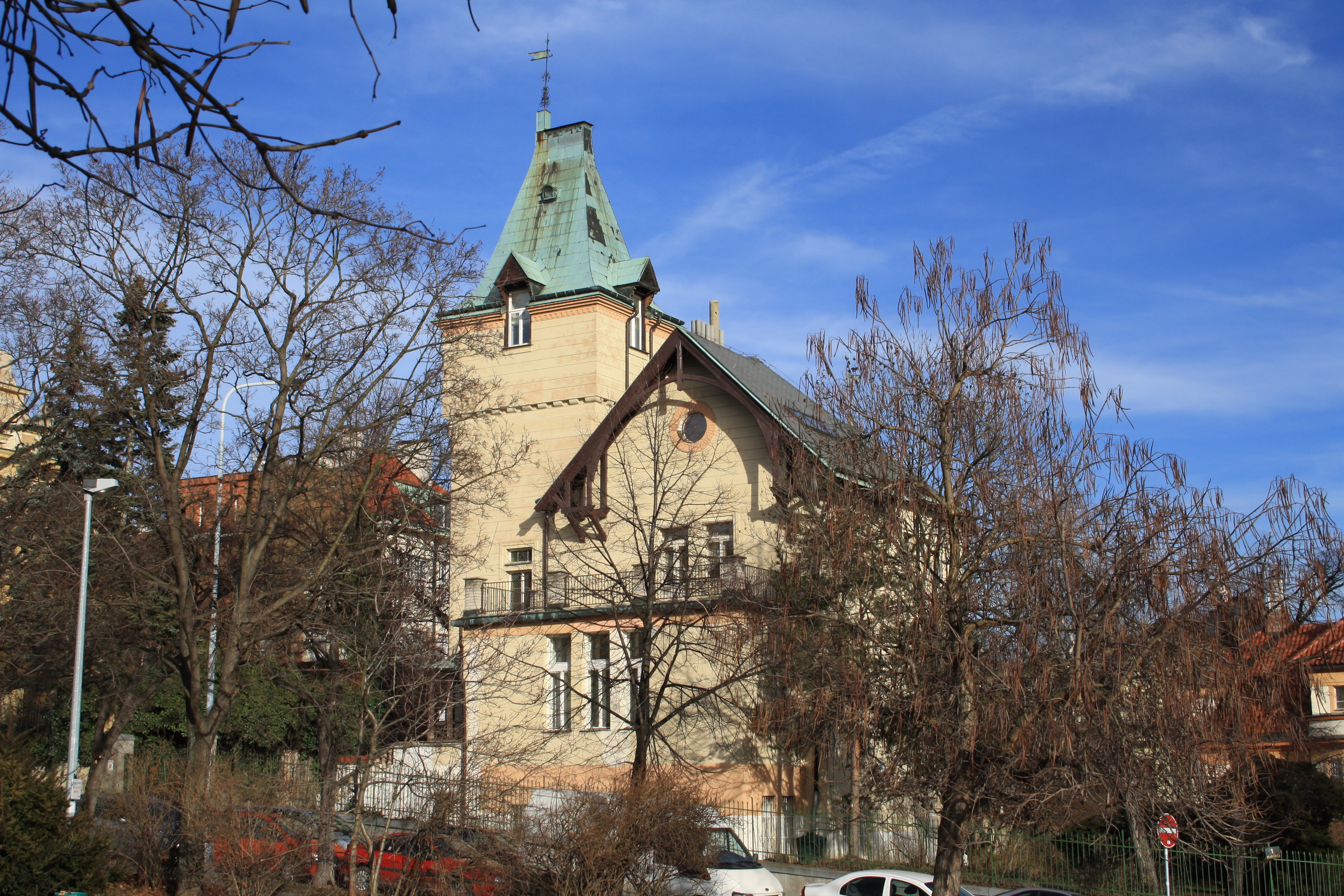 Villa in Hradesinska 1, Prague, Czech Republic